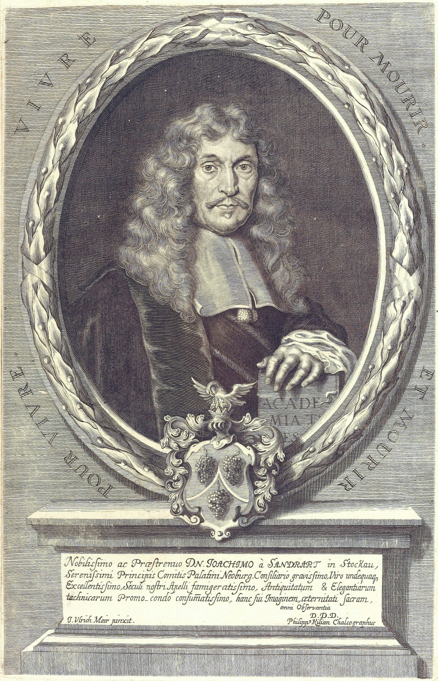 Engraving according to a not preserved painting by Johann Ulrich Mayr